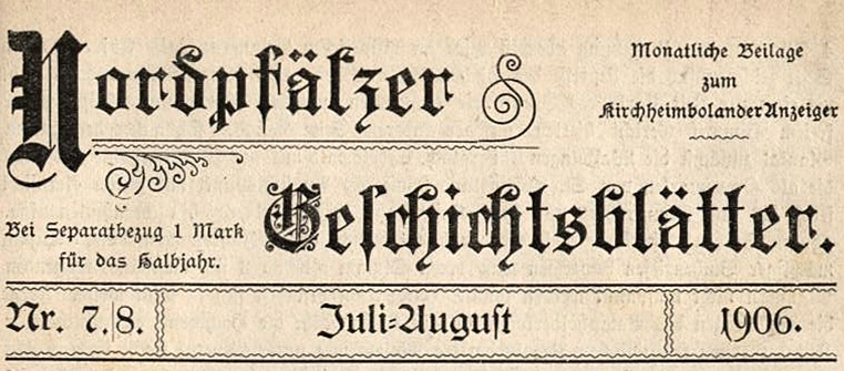 Nordpfälzer Geschichtsblätter, Titelkopf, 1906 (eigene Aufnahme von eigenem altem Heft, von 1906)